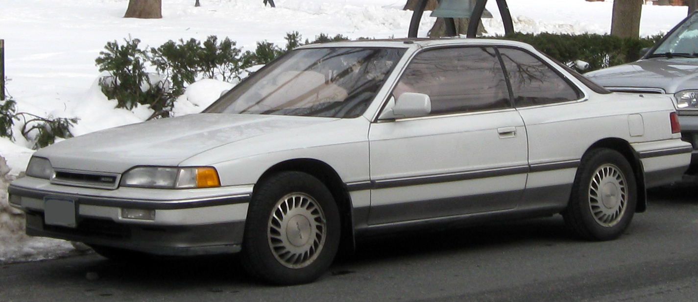 Acura Legend photographed in Annapolis, Maryland, USA.